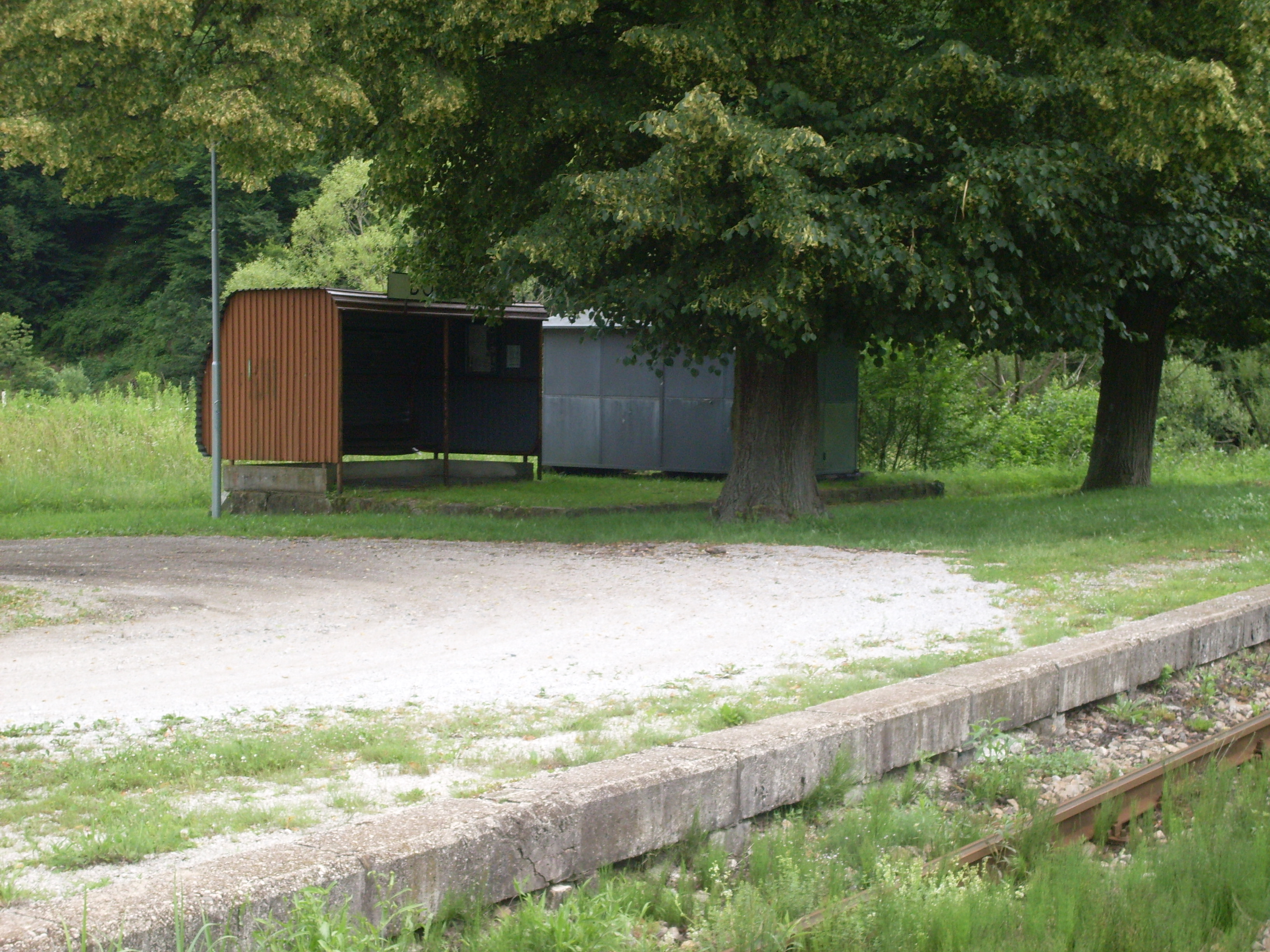 Railway halt Dobovec, actually located in a settlement of Šmid between Dobovec pri Rogatcu and VidinaSlovenščina: Železniško postajališče Dobovec, ki se nahaja v zaselku Šmid med Dobovcem pri Rogatcu in Vidino